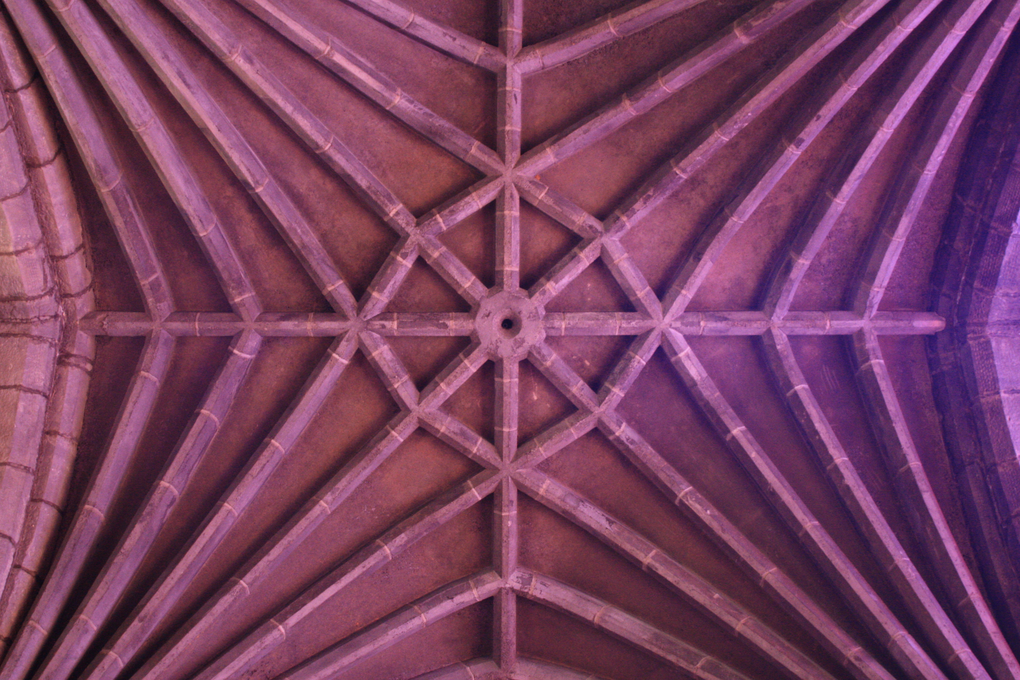 Kilkenny, Co. Kilkenny, Ireland Ribbed vault under the crossing tower of Black Abbey. This vault was reconstructed by master-joiner Jimmy Dunlop of Kilkenny in the 1970s on base of some surviving parts of the original early 16th-century vaulting and similar designs at St. Canice's cathedral in Kilkenny and Jerpoint abbey. See Hugh Fenning: The Black Abbey: The Kilkenny Dominicans 1225-1996, p. 44.